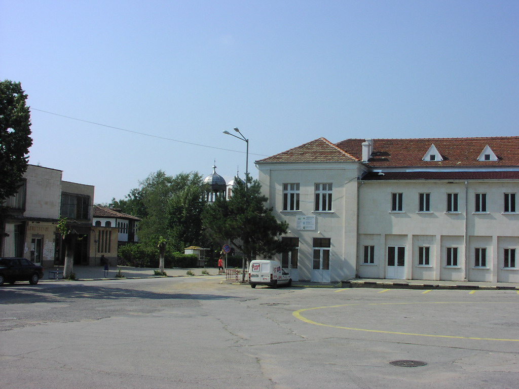 Zlataritza, Veliko Tarnovo, Bulgaria - the city place and the library.